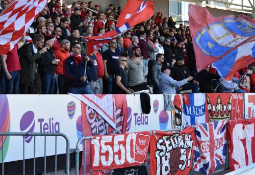 HIFK Fotboll fans "Stadin Kingit"